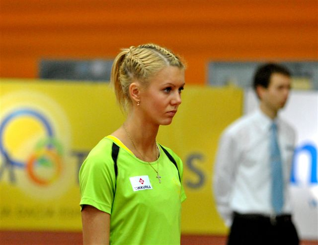 Grete Šadeiko in Estonia Indoor Championship